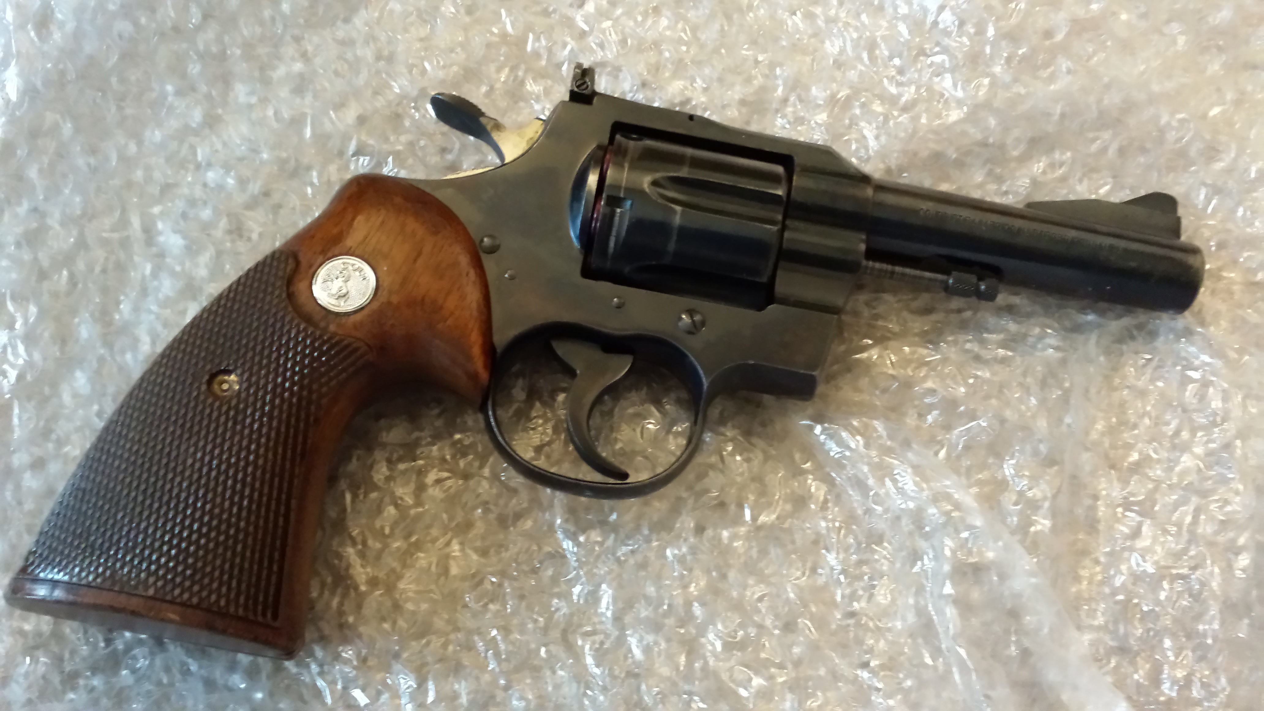 Colt Trooper 357 model, serial number dates revolver to 1962. These are original Colt factory made wooden handles with silver medallions.